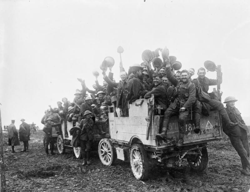 Canadian troops returning from the line after the Battle of Courcelette on the Somme, on the back of an Autocar lorry.